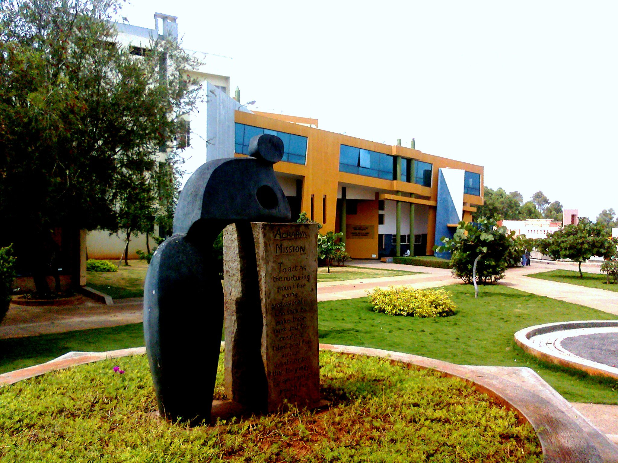 The Campus